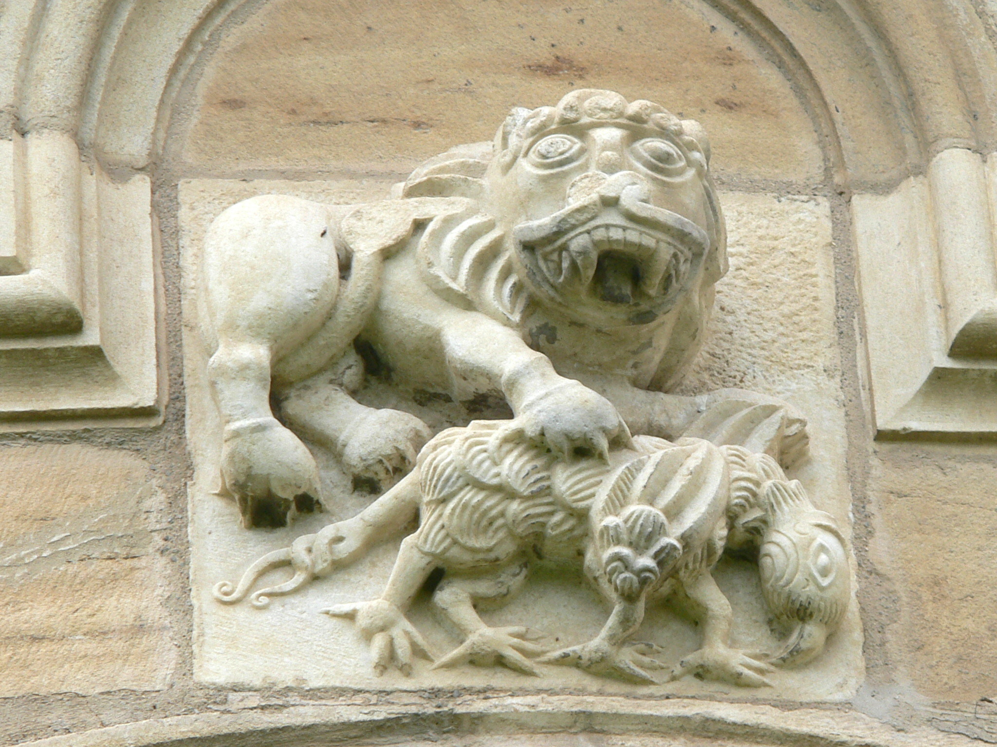 Gurk Cathedral. The lion (Christ) overcomes the basilisk (devil): Relief at the central apse (around 1175)